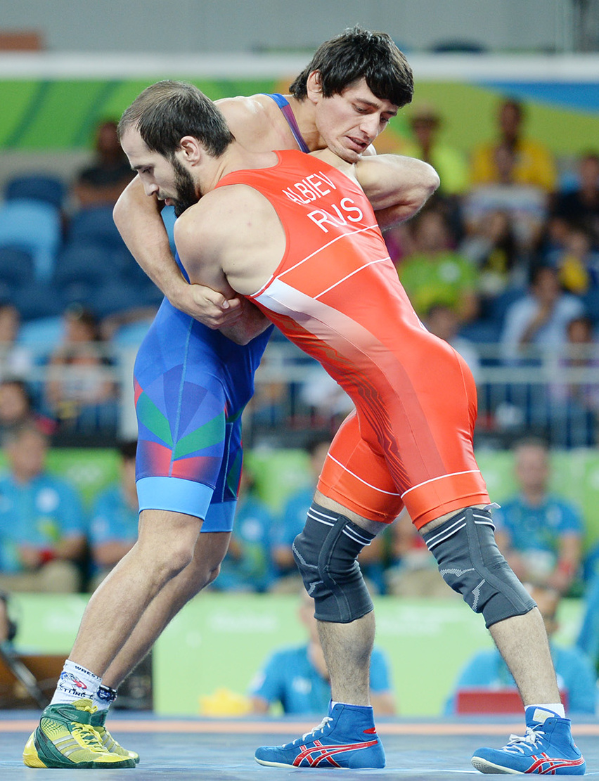 Wrestling at the 2016 Summer Olympics, Chunayev vs Albiev